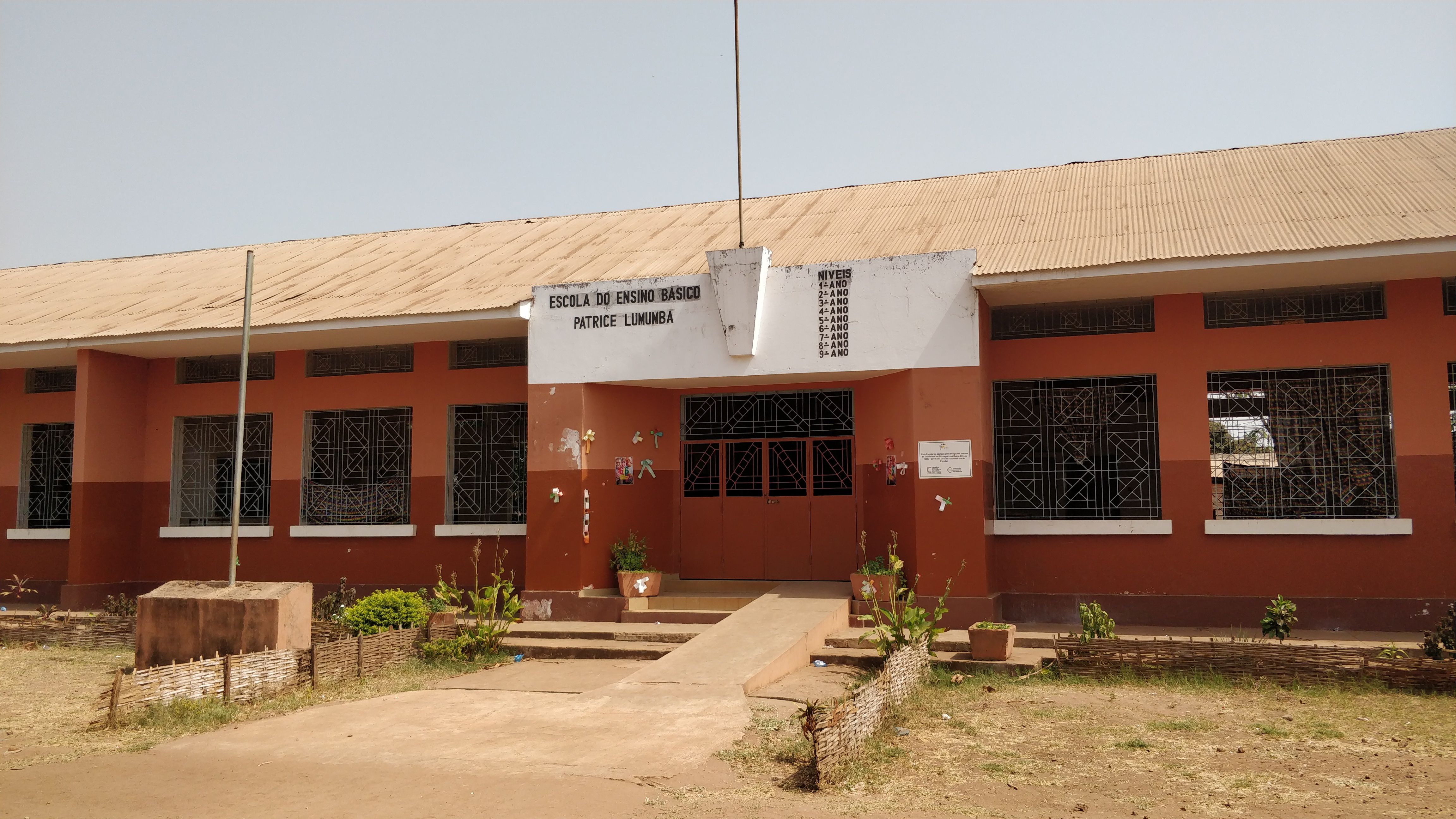 Elementary School Patrice Lumumba (Escola do Ensino Básico Patrice Lumumba), Bissau, Guinea-Bissau